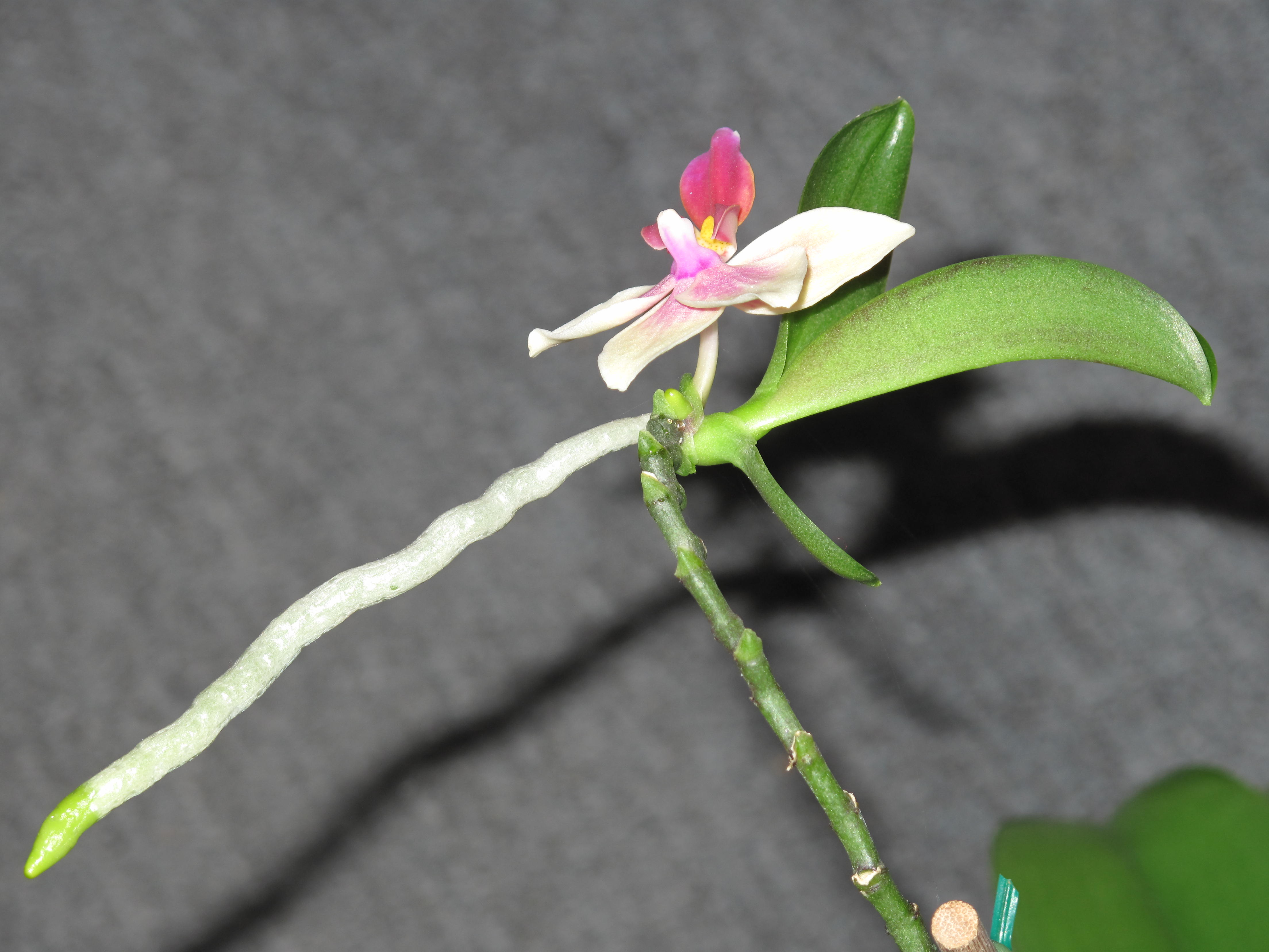 Little orchid (Phalaenopsis) in december 2012, with a keiki which is an offset on the flower stem.